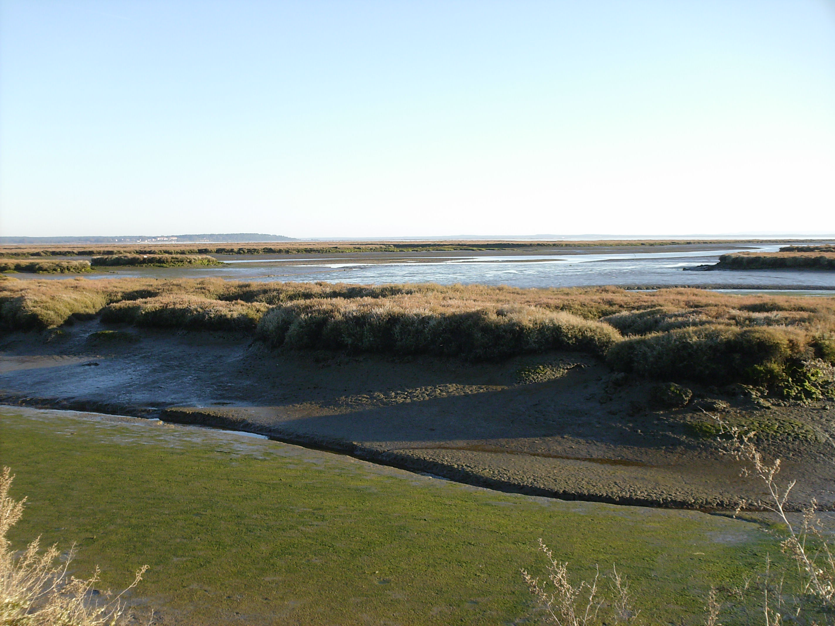 Sado Estuary in Setúbal's freguesia of Praias do Sado.